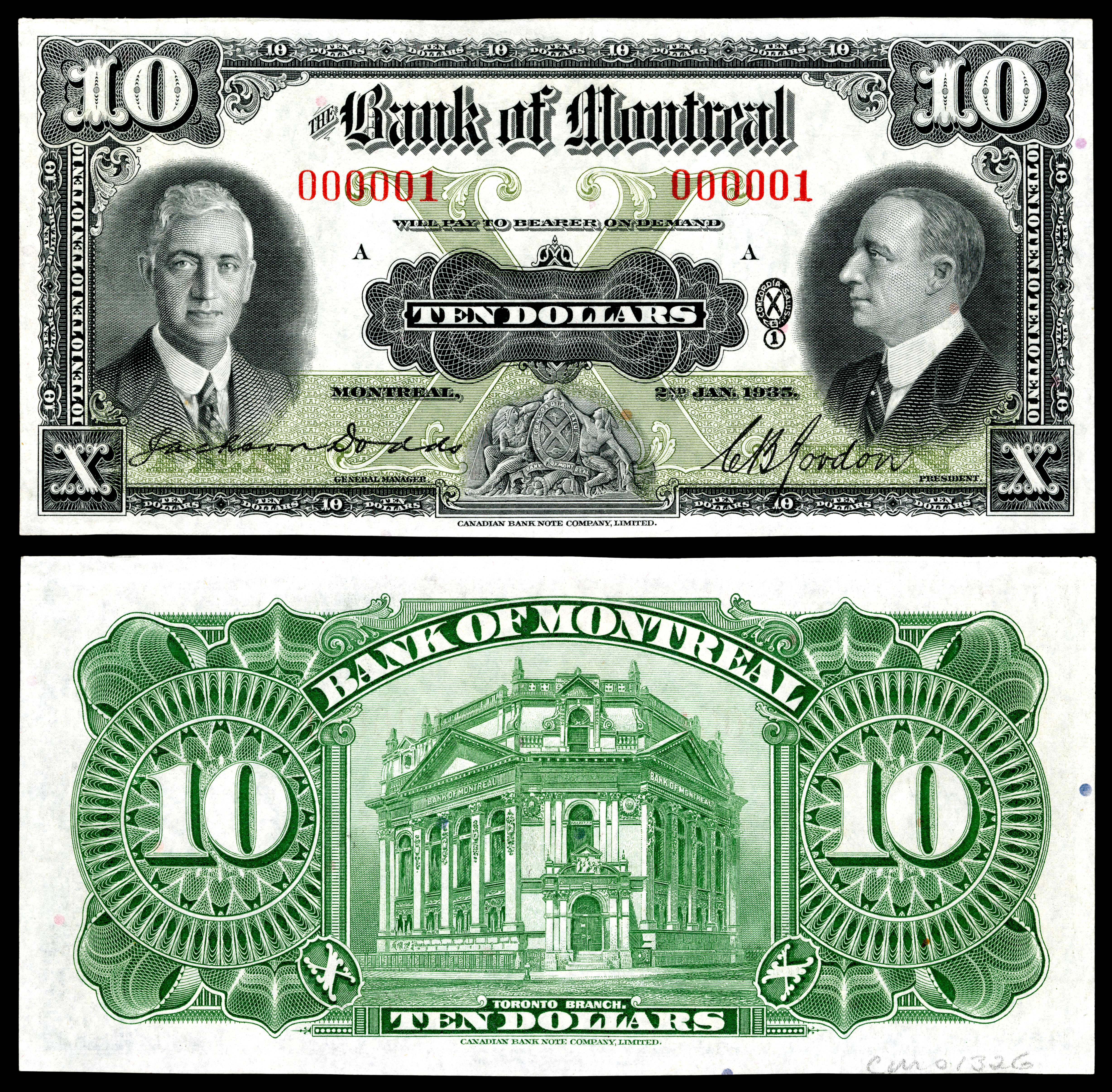 Bank of Montreal,10 Dollars (1935), serial number 1. Portraits of J. Dodds and C.B. Gordon with signatures of the same. The issue date of this note (2 January 1935) predates the Bank of Canada copyright for Canadian banknotes (March 1935 forward).